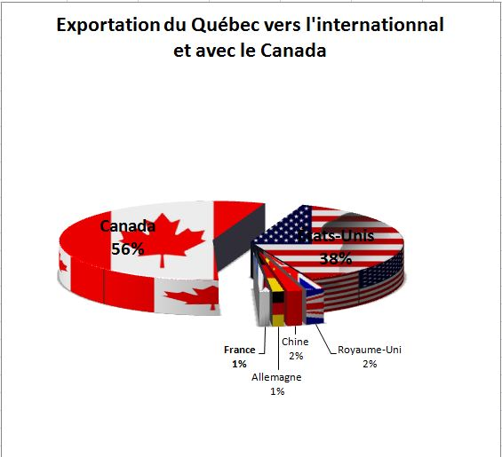 Exportation du Québec vers le Canada et autres pays